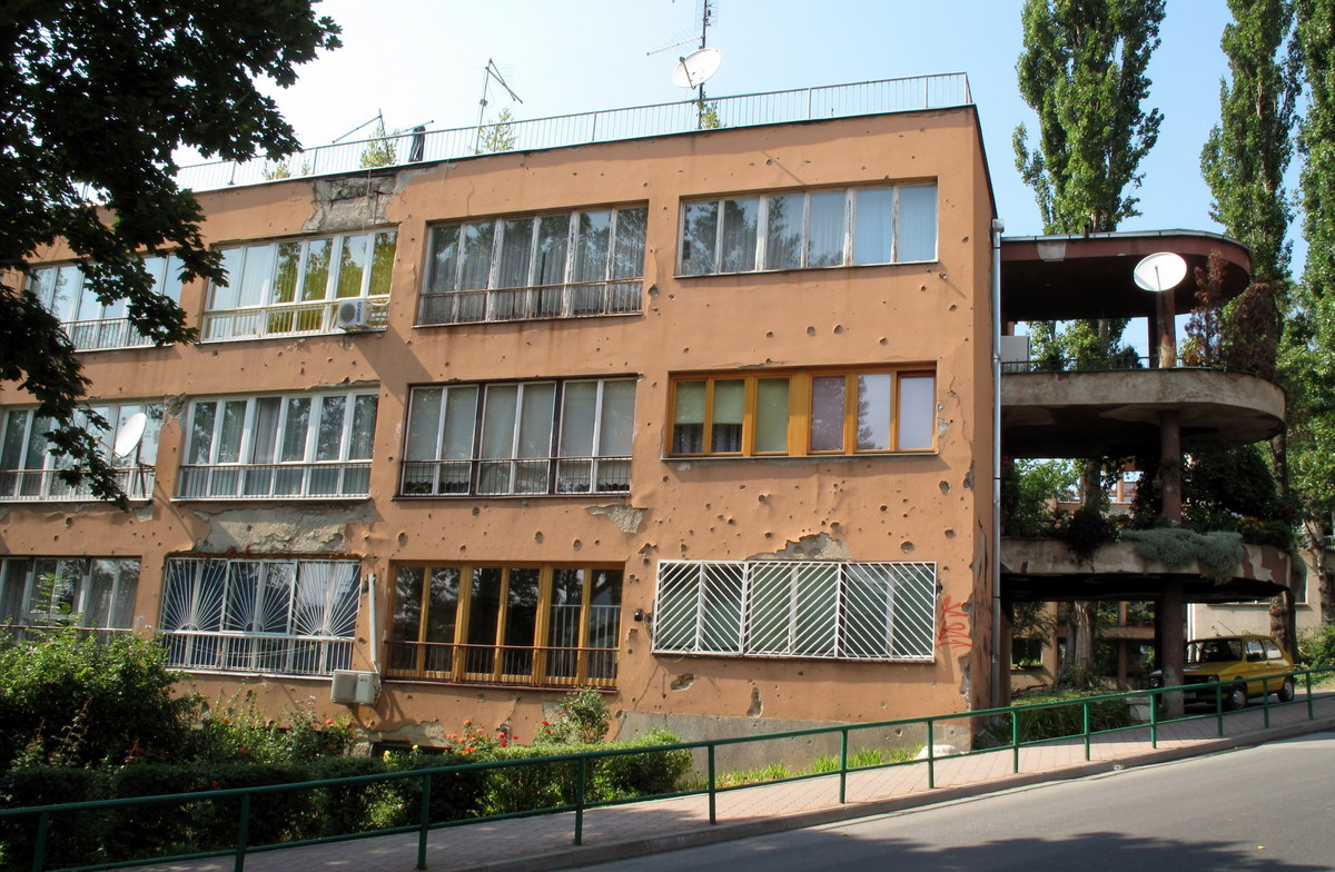 from a trip documented on Bosnia